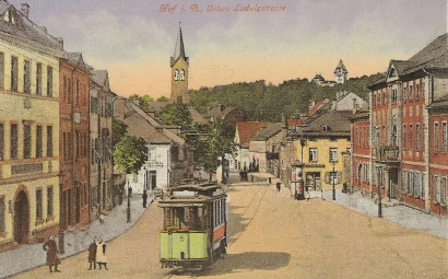 historic picture taken in Hof (Saale)